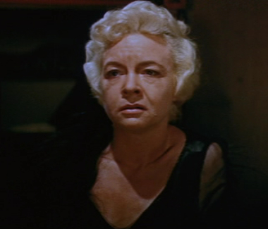 Cropped screenshot of Jo Van Fleet in the trailer for the film East of Eden